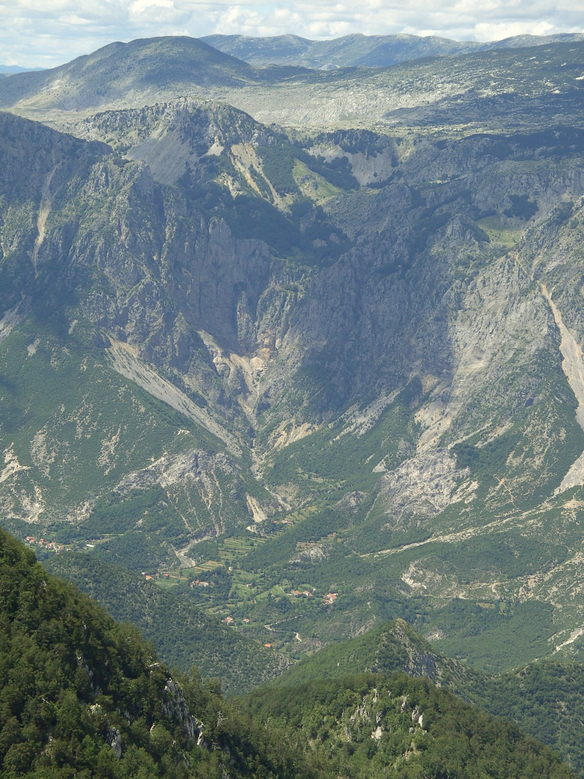 Cvršnica mountain range seen from Čabulja hills, Bosnia and Herzegovina